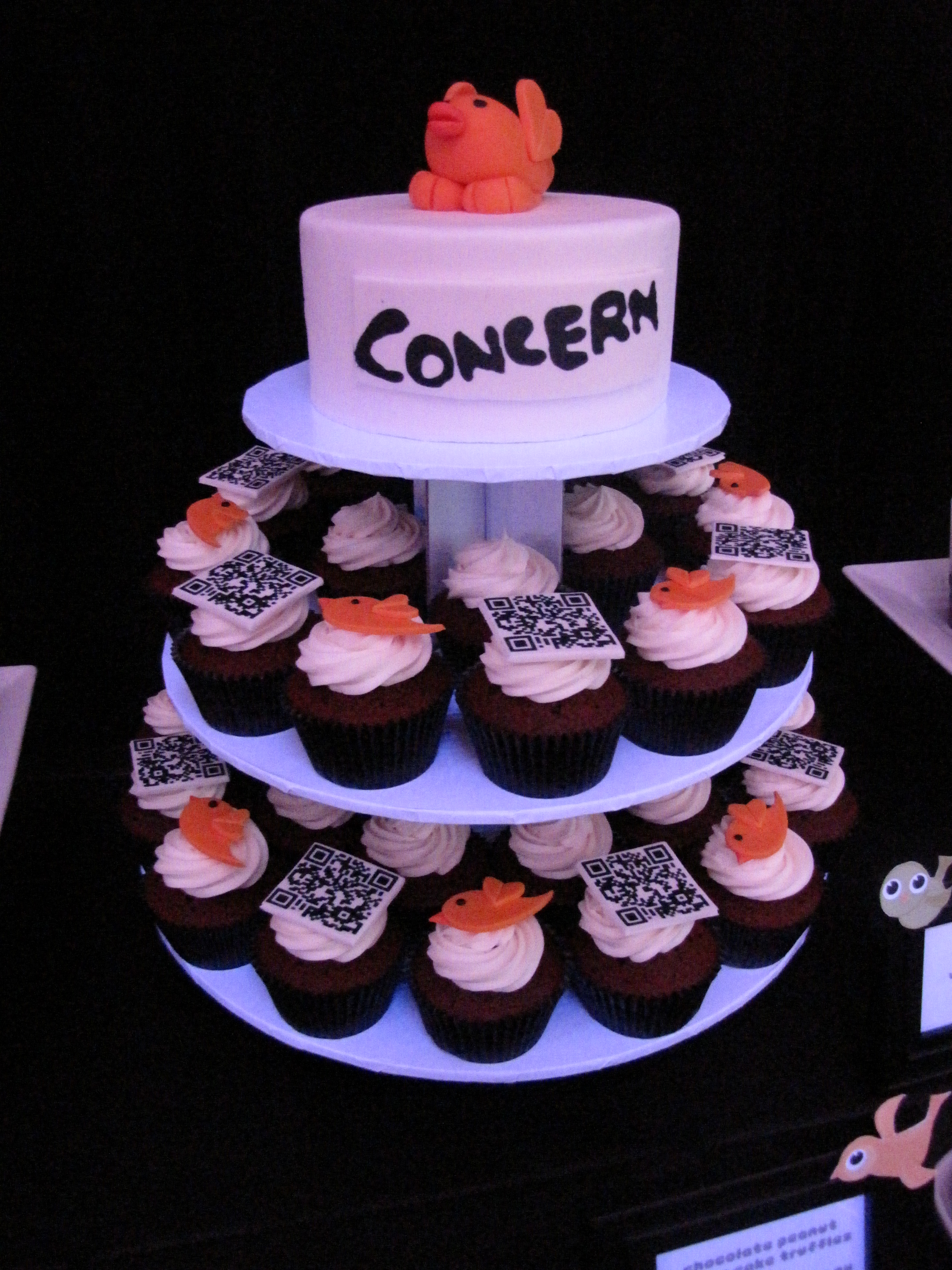 Red velvet cupcakes frosted with Vanilla Buttercream and topped with handcrafted fondant Twitter Birds and edible QR Codes for our #TwestivalMTL dessert table. Cutting cake decorated with a handpainted Concern logo and topped with a handcrafted fondant Twitter Bird. We donated cupcakes and other sweets to be sold at the event to raise money for Concern Worldwide. The QR Code on the cupcakes lead to the Concern webpage which accepts online donations. Follow us on Twitter. Find us on Facebook.